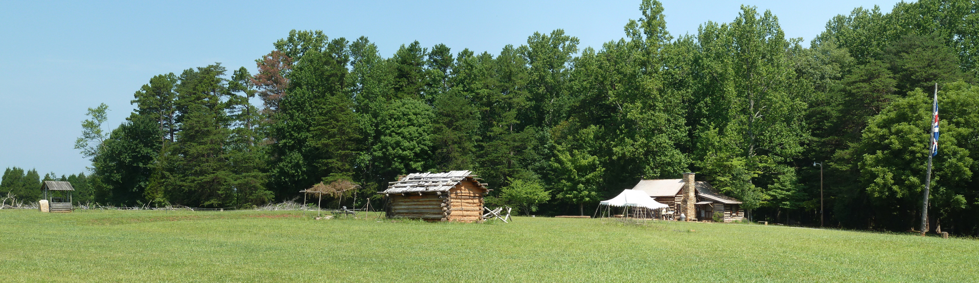 The modern historic site of Fort Dobbs